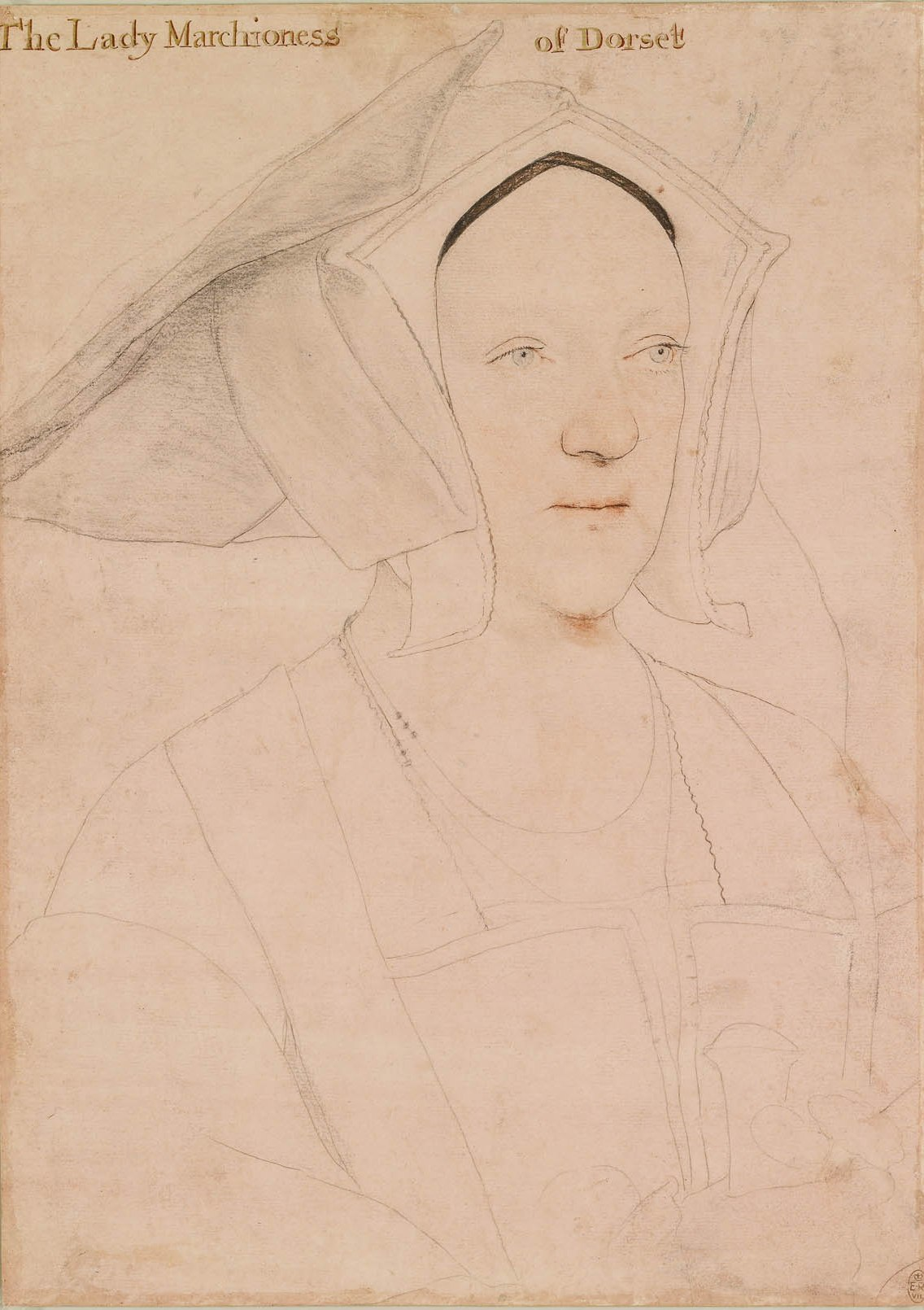 Portrait of Margaret, Marchioness of Dorset. Black and coloured chalks, pen and Indian ink, metalpoint, on pink-primed paper, 33.3 × 23.8 cm, Royal Collection, Windsor Castle. The drawing has been almost entirely ruined by rubbing, damage during transfer to panel, and reworking by other hands. The foundation drawing is virtually erased, but traces of left-handed shading in the headdress identify it as originally a Holbein (Parker, p. 43). The sitter was once misidentified as Frances Grey, Marchioness of Dorset, the mother of Lady Jane Grey. In fact she is Frances Grey's mother-in-law, Margaret Grey, née Wotton, the second wife of Thomas Grey, 2nd Marquess of Dorset,whom she married in 1509. She died in 1535 (Parker, p. 43).